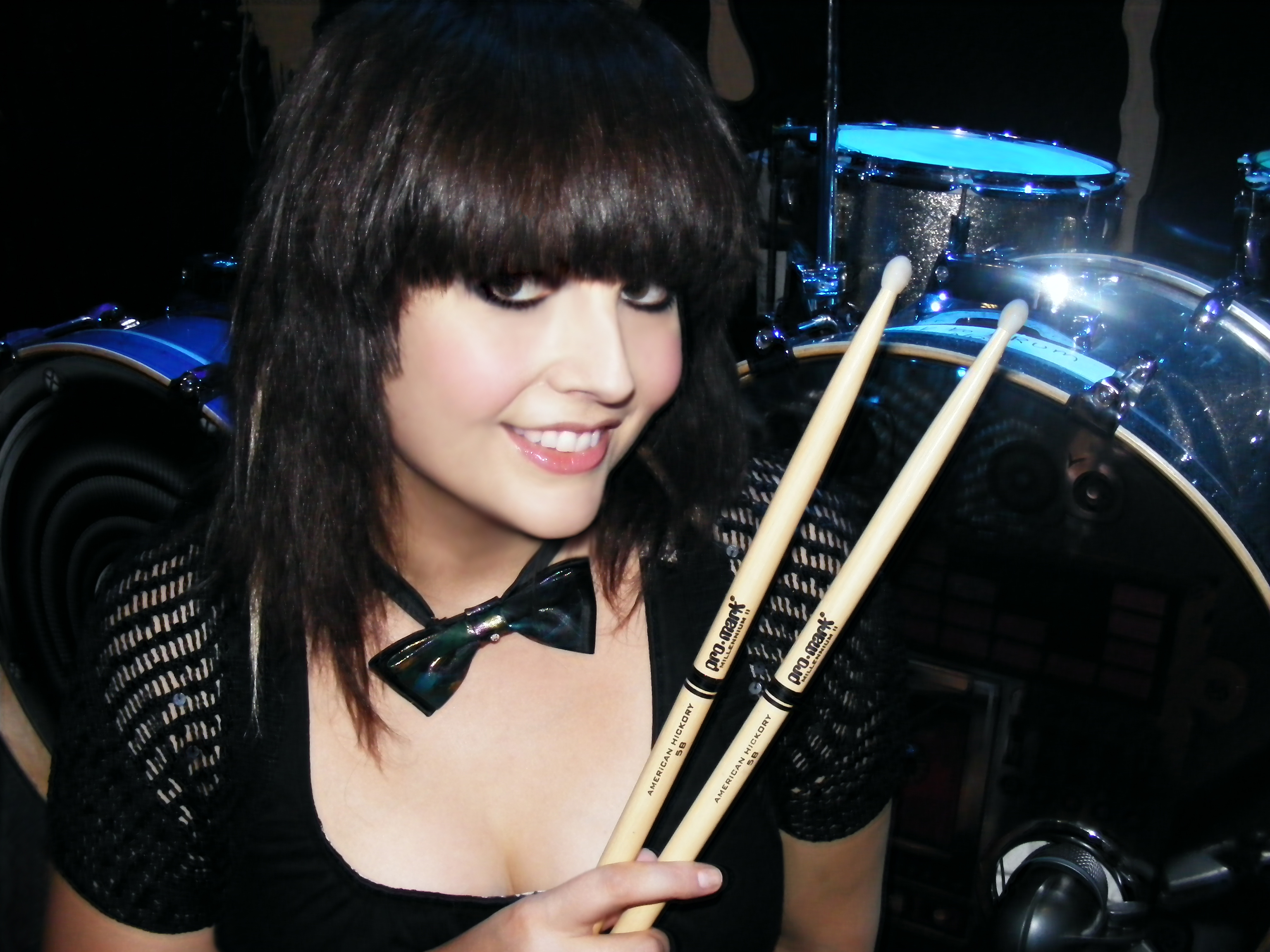 Kitty